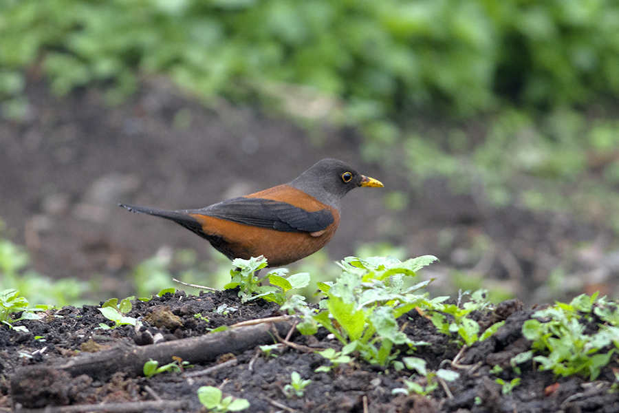 The species Chestnut Thrush had been photographed from Pangolakha Wildlife Sanctuary in East Sikkim, India on 05.04.2016.